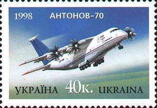 Stamp of Ukraine